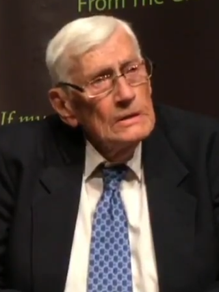 Seamus Mallon (SDLP) speaking at John Hewitt International Summer School 2017